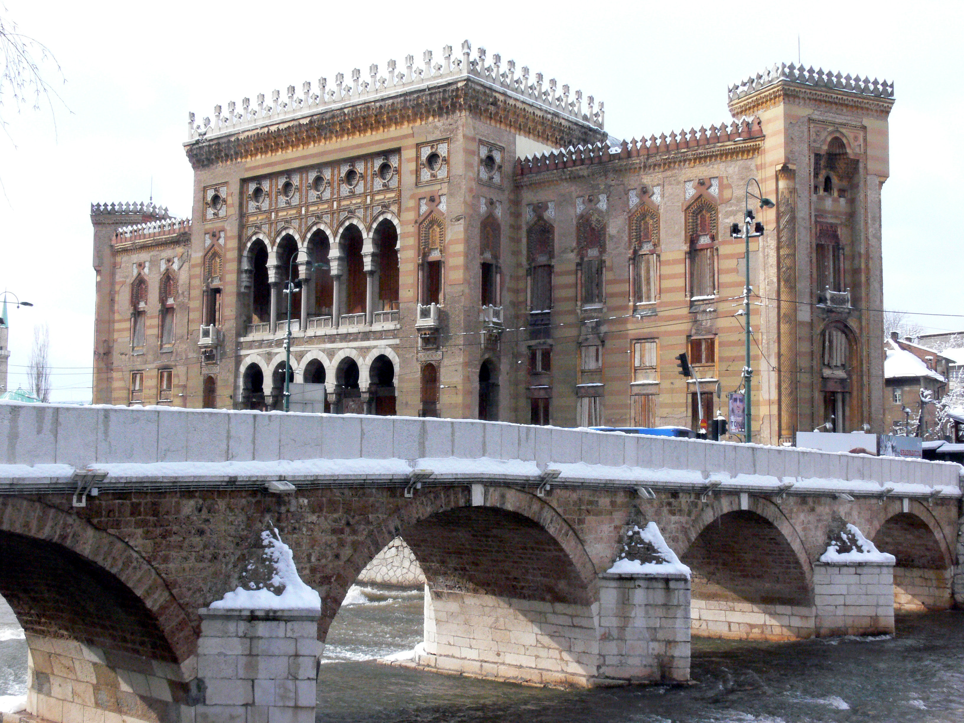 Sarajevo, old town hall, later library, now ruin.